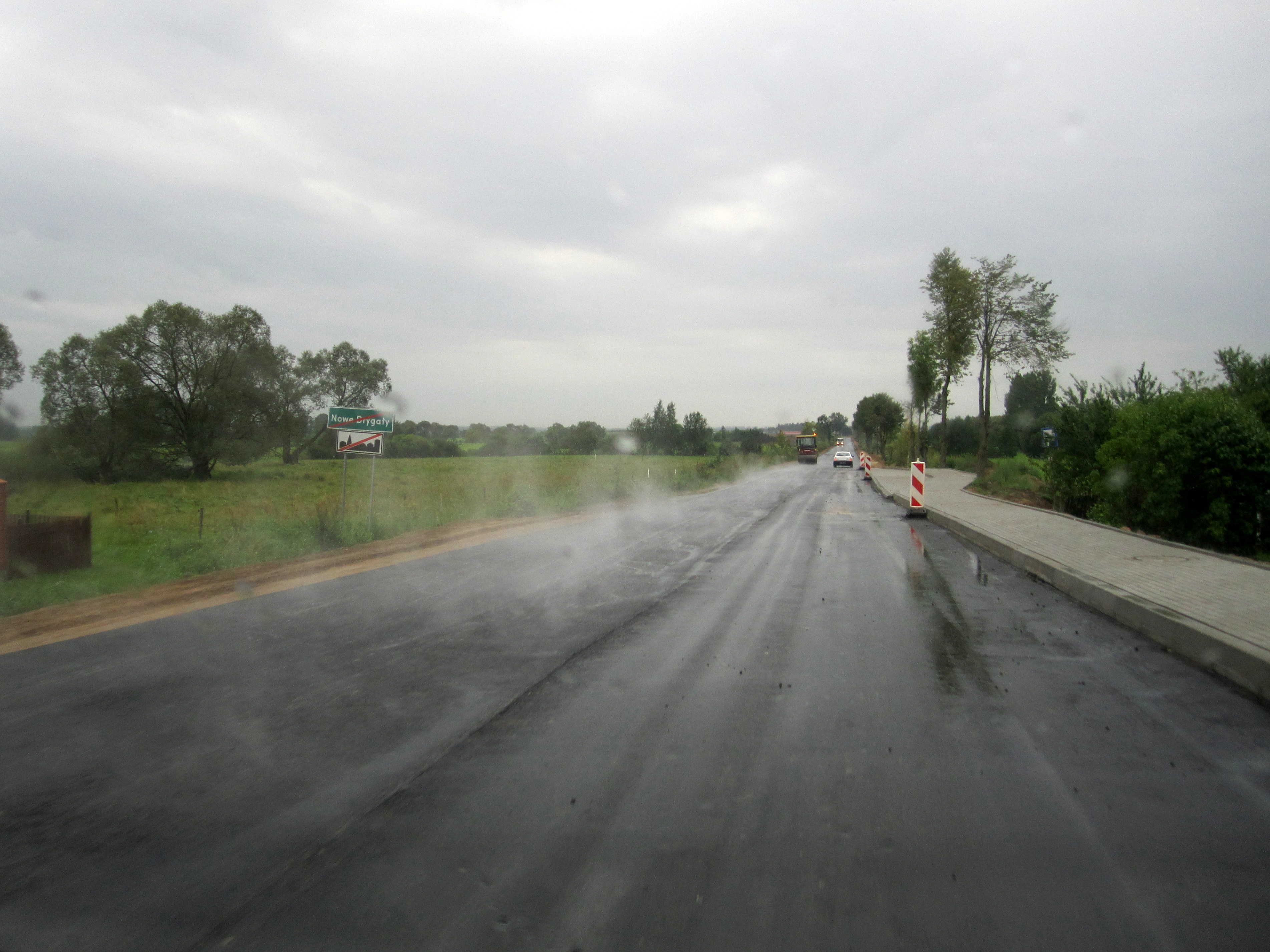 New Drygały - renovation of the provincial road No 667